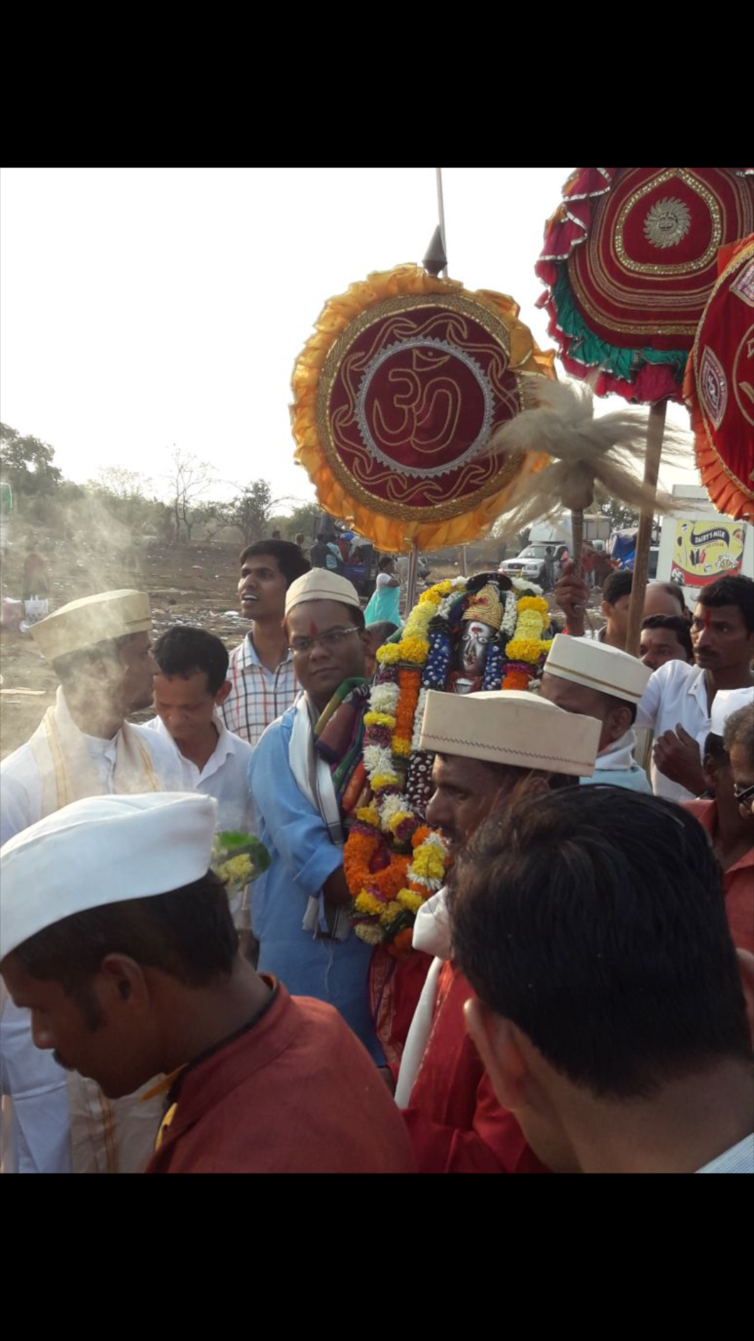 Aryadurga devi, devihasol, rajapur